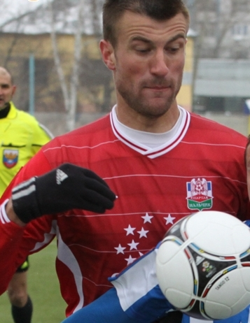 Jovan Golić as a player of FC Spartak-Nalchik in 2011 year